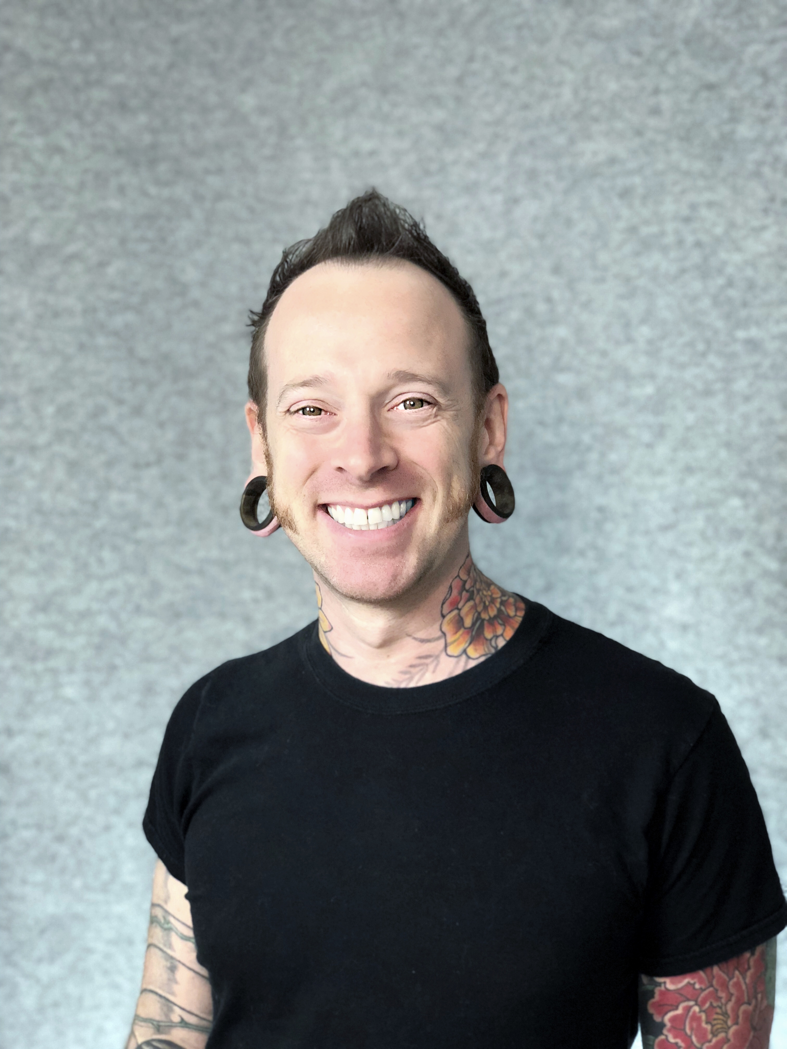 Image of Jon Kolko